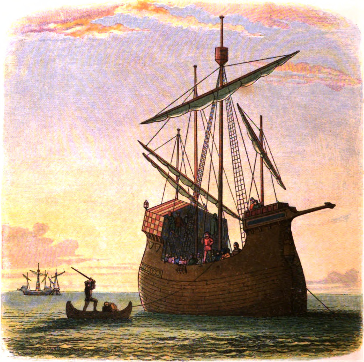 William de la Pole, 1st Duke of Suffolk, was murdered while his ship was sailing him to exile.